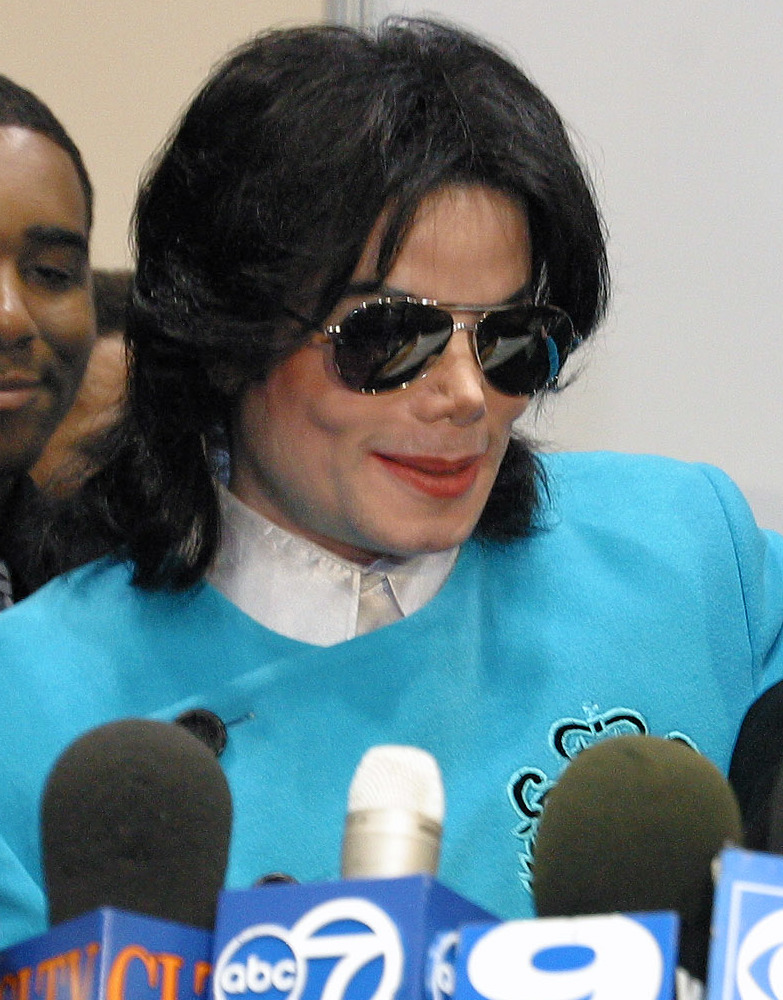 2003: Michael Jackson at The Cable Show